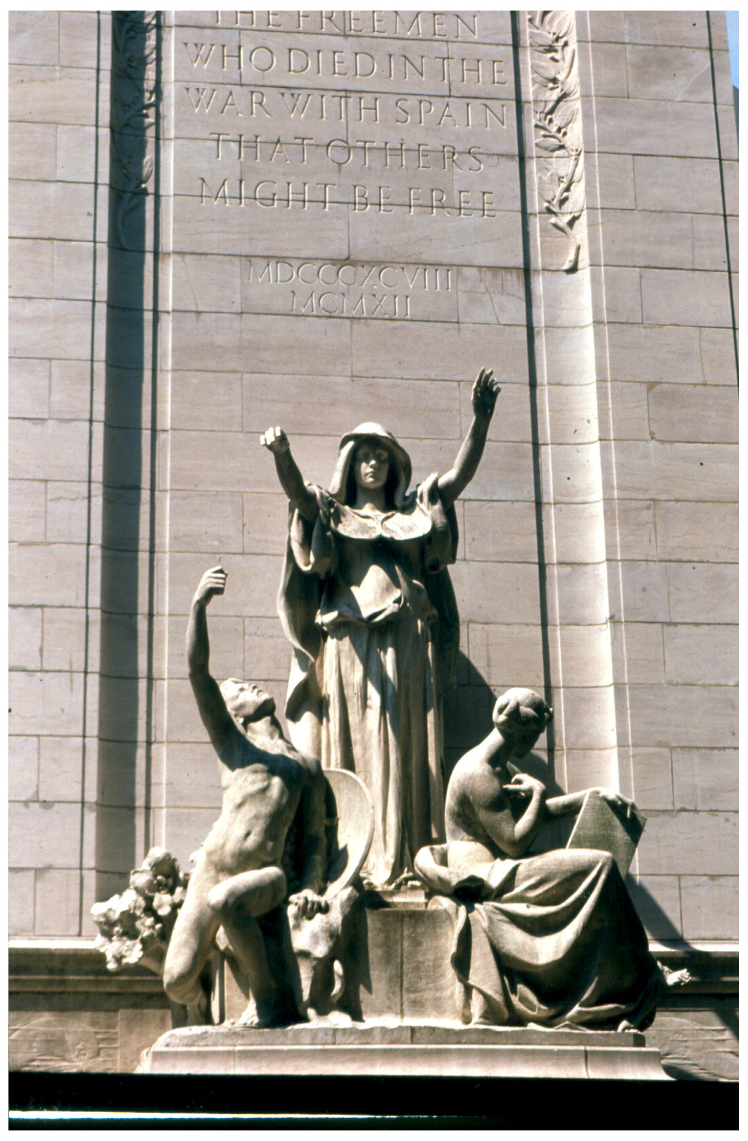 photo by Einar Einarsson Kvaran for the Piccirilli Brothers